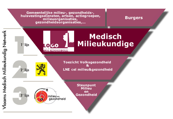 Schematic view of the Flemisch Environmental Health Network